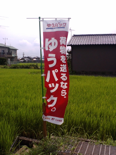 A flag of "Yū-pack", the package delivery service of Japan Post. See the camera location.